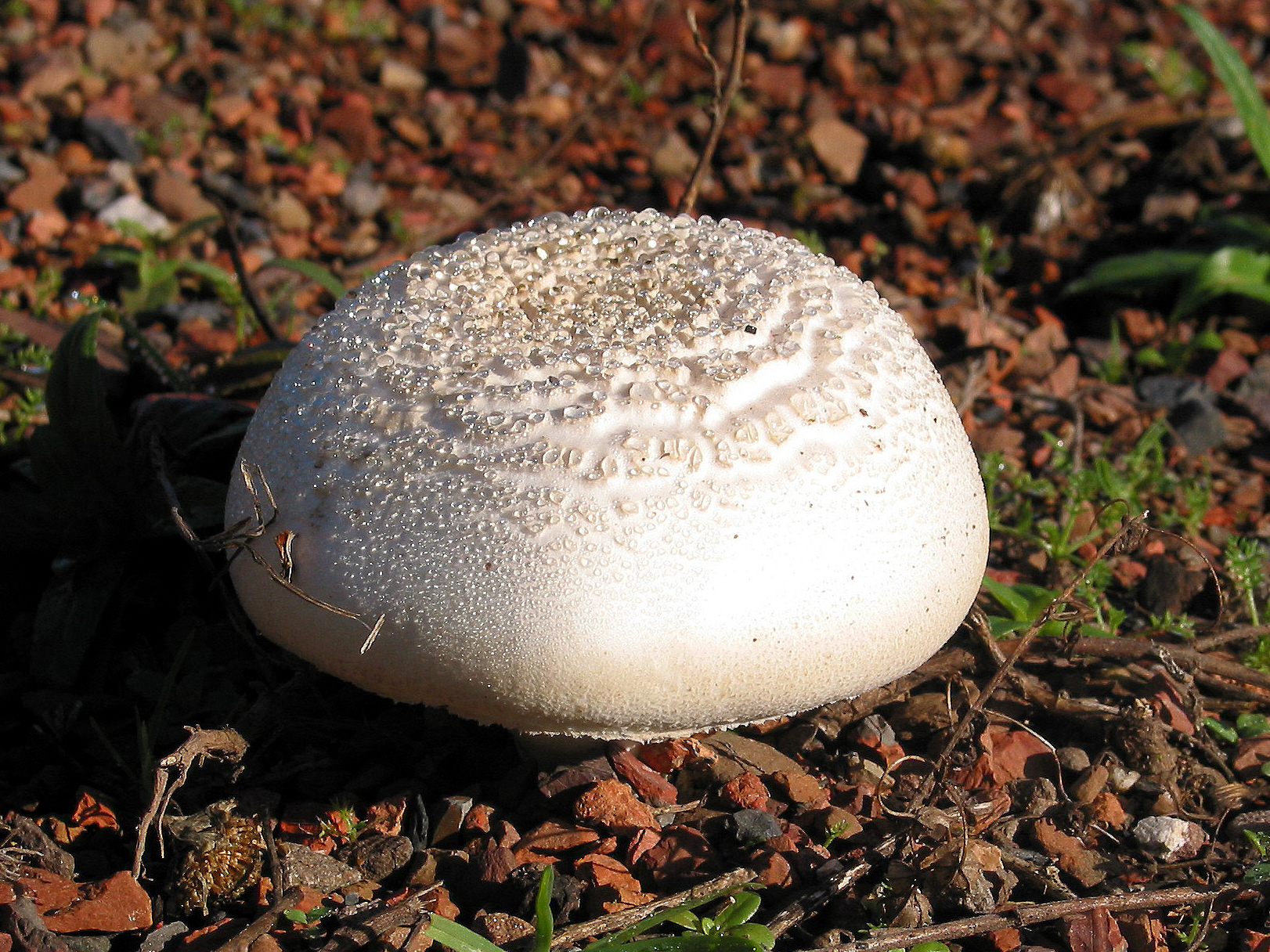 White daperling, smooth lepiota, or smooth Parasol